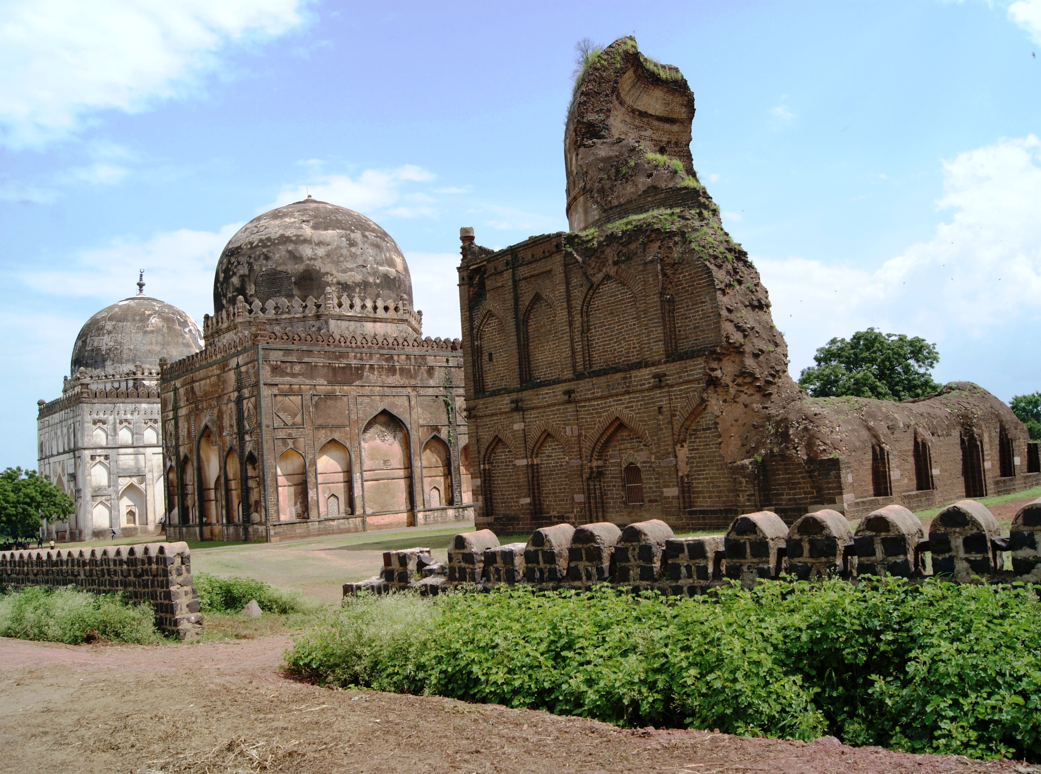 Bahamani tombs